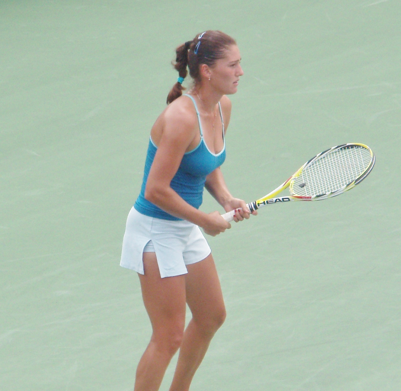 Ekaterina Ivanova, also Ekaterina Lopes, at the US Open